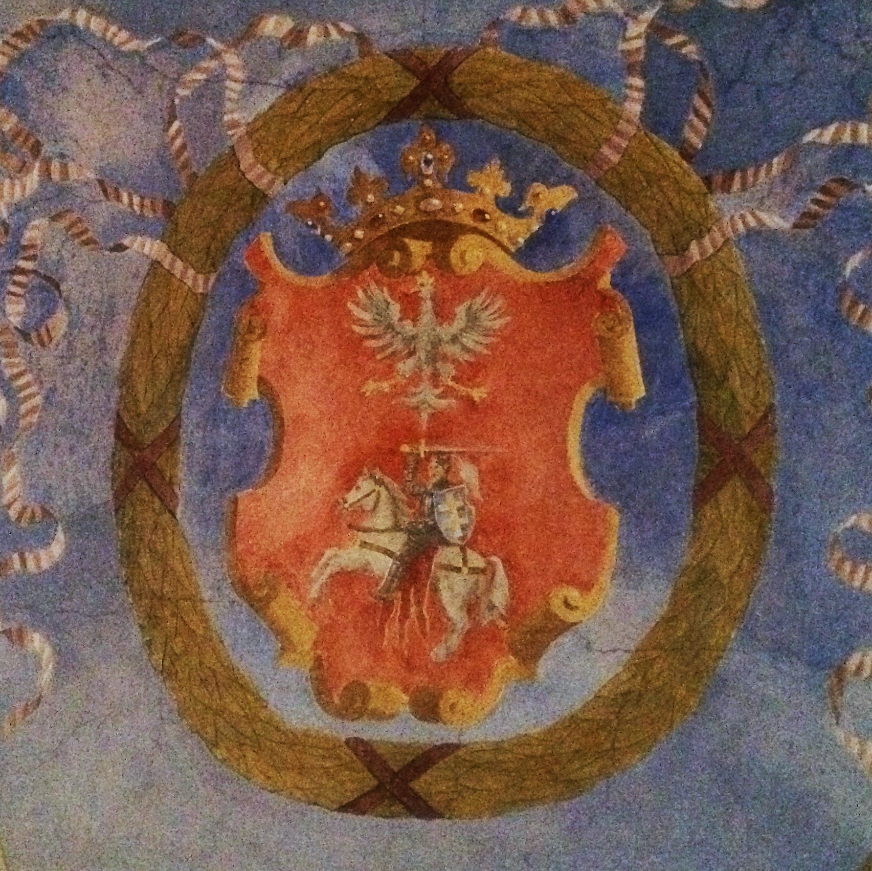 Coat of arms of Podlaskie Voivodeship Old Chamber of Deputies (Royal Castle, Warsaw)